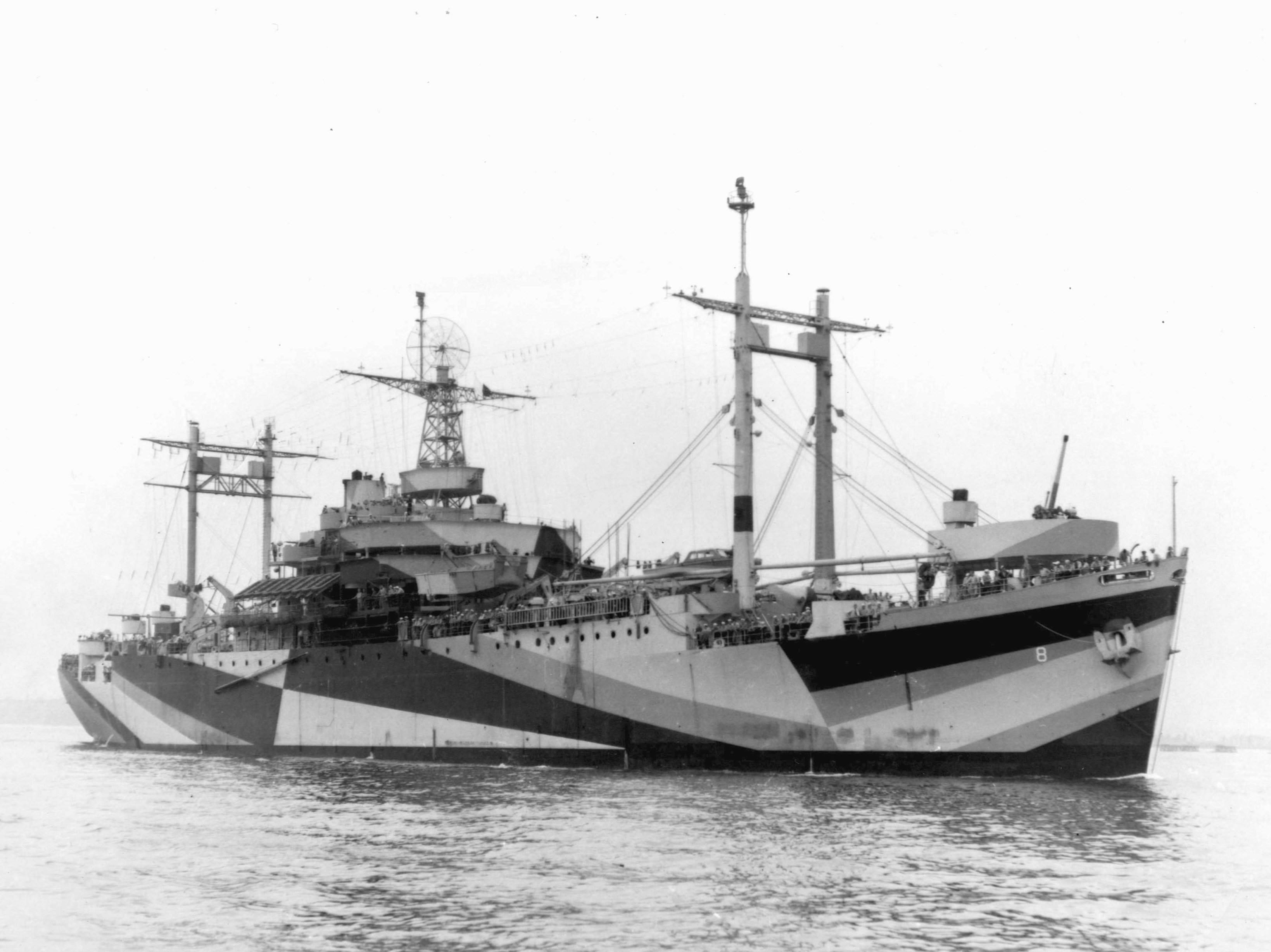 The U.S. Navy amphibious command ship USS Mount Olympus (AGC-8) in June 1944. She is painted in Camouflage Measure 32 Design 8F.